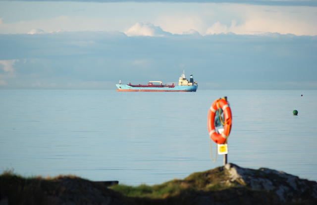 Lifebuoy and ship, Bangor, 3 km from Bangor, Ireland. The ship at anchor in Belfast Lough is the 'Nakskov Maersk', a 144m oil tanker that sat in this position for several after discharging in Belfast; on the 2nd May she headed south and anchored off Milford Haven instead, presumably awaiting a new cargo. In the foreground is a lifebuoy on the 'Long Hole' J5082 : Lifebuoy, Bangor . IMO Number: 9323584 MMSI Number: 220500000 Callsign: OXHH2 Length: 144 m Beam: 23 m